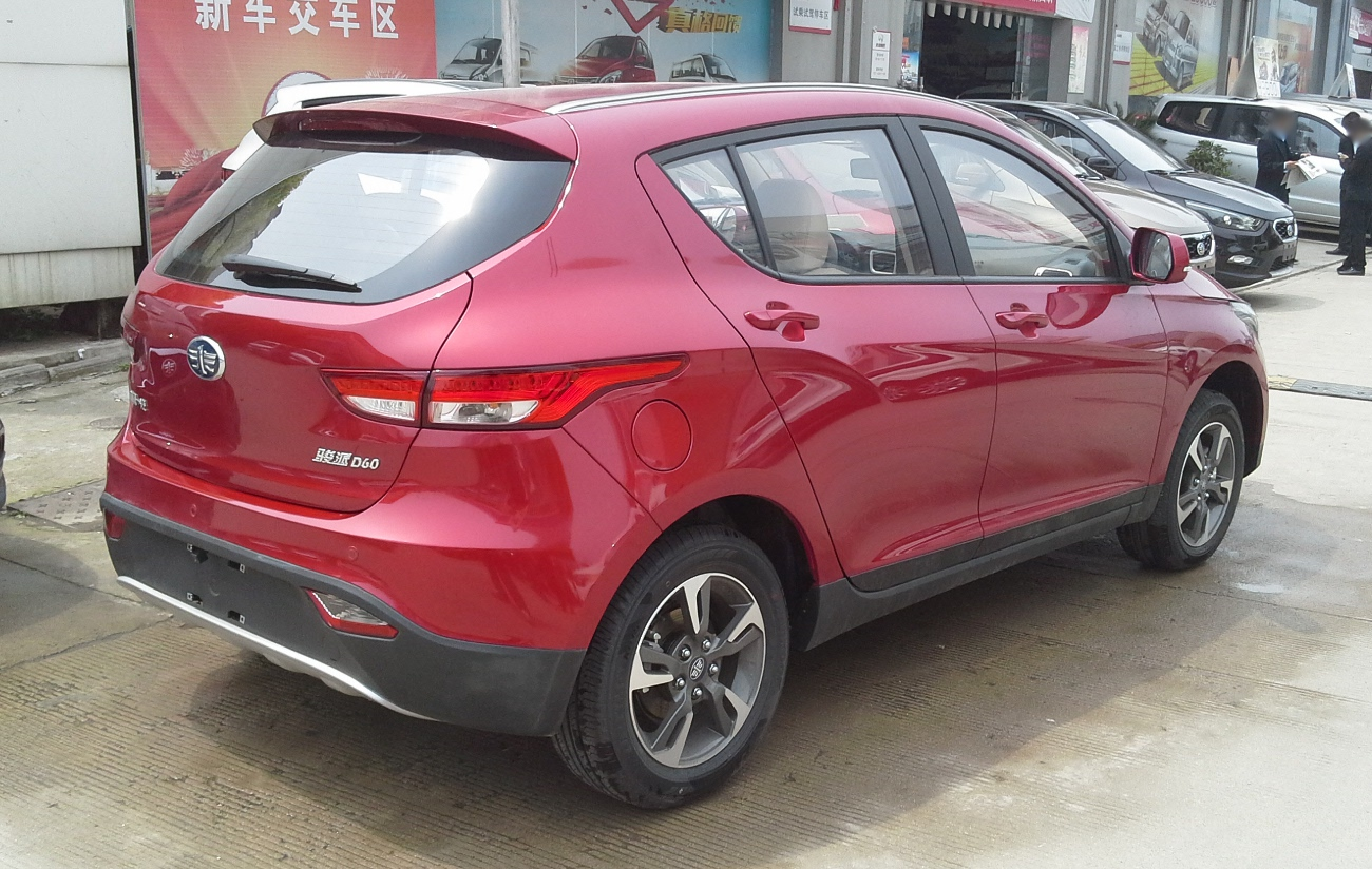 FAW Junpai D60 photographed in Wuhan, Hubei province, China.